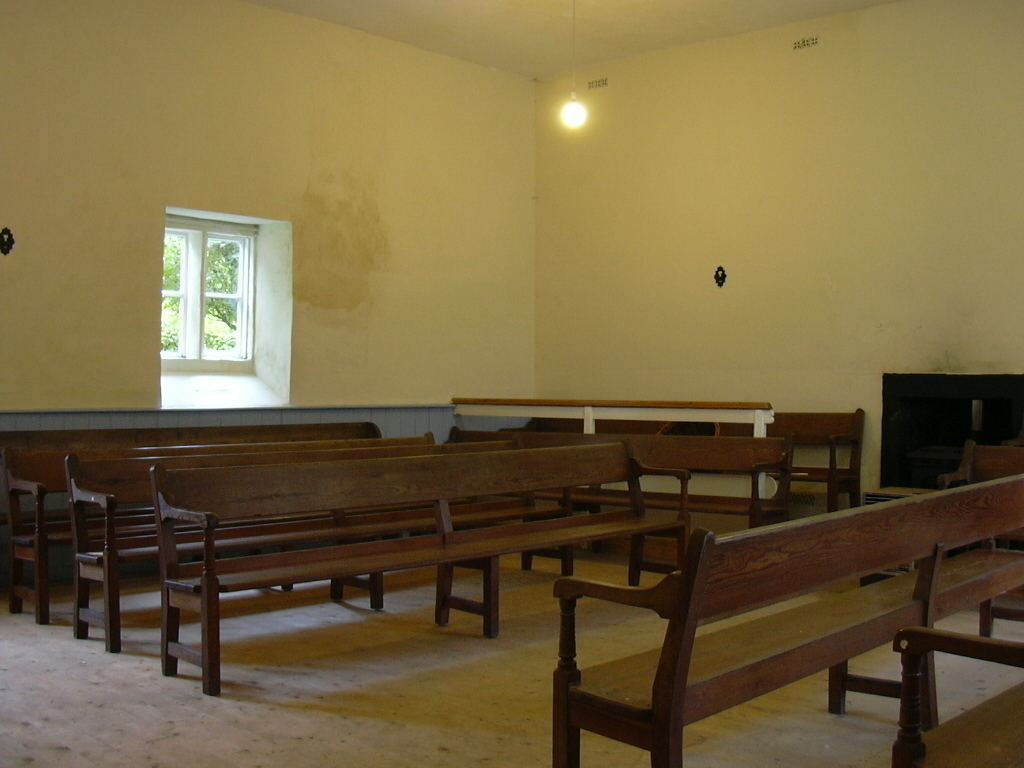 Inside Pardshaw Friends Meeting House, Pardshaw Hall, on the north-western edge of the English Lake District. The meeting house was built in 1729, and originally had two meeting rooms for separate mens' and womens' business meetings, with an openable wooden partition between them that allows them to be joined into one big room. This was originally the womens' room, the room that was formally the mens' room is now used by Young Friends.